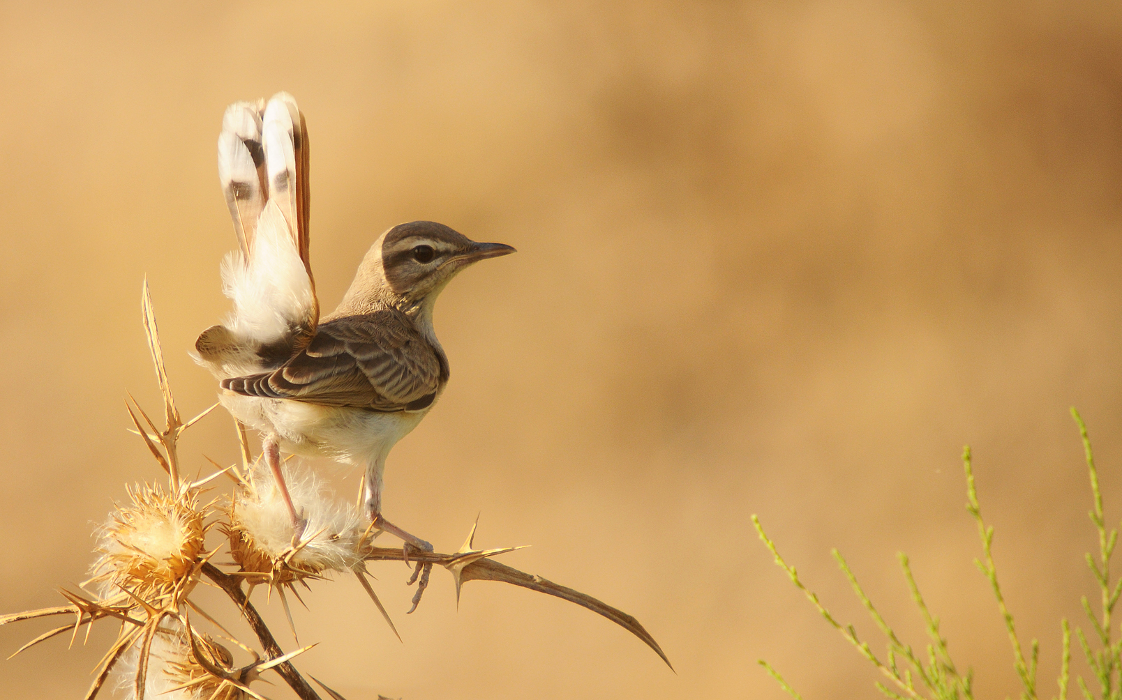 Rufous bush robin